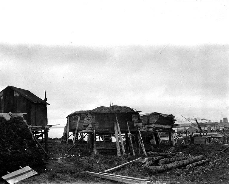 From John Cobb field notebook: Native houses, Naknek Subjects (LCTGM): Eskimos--Structures; Houses--Alaska--Naknek Subjects (LCSH): Dwellings--Alaska--Naknek